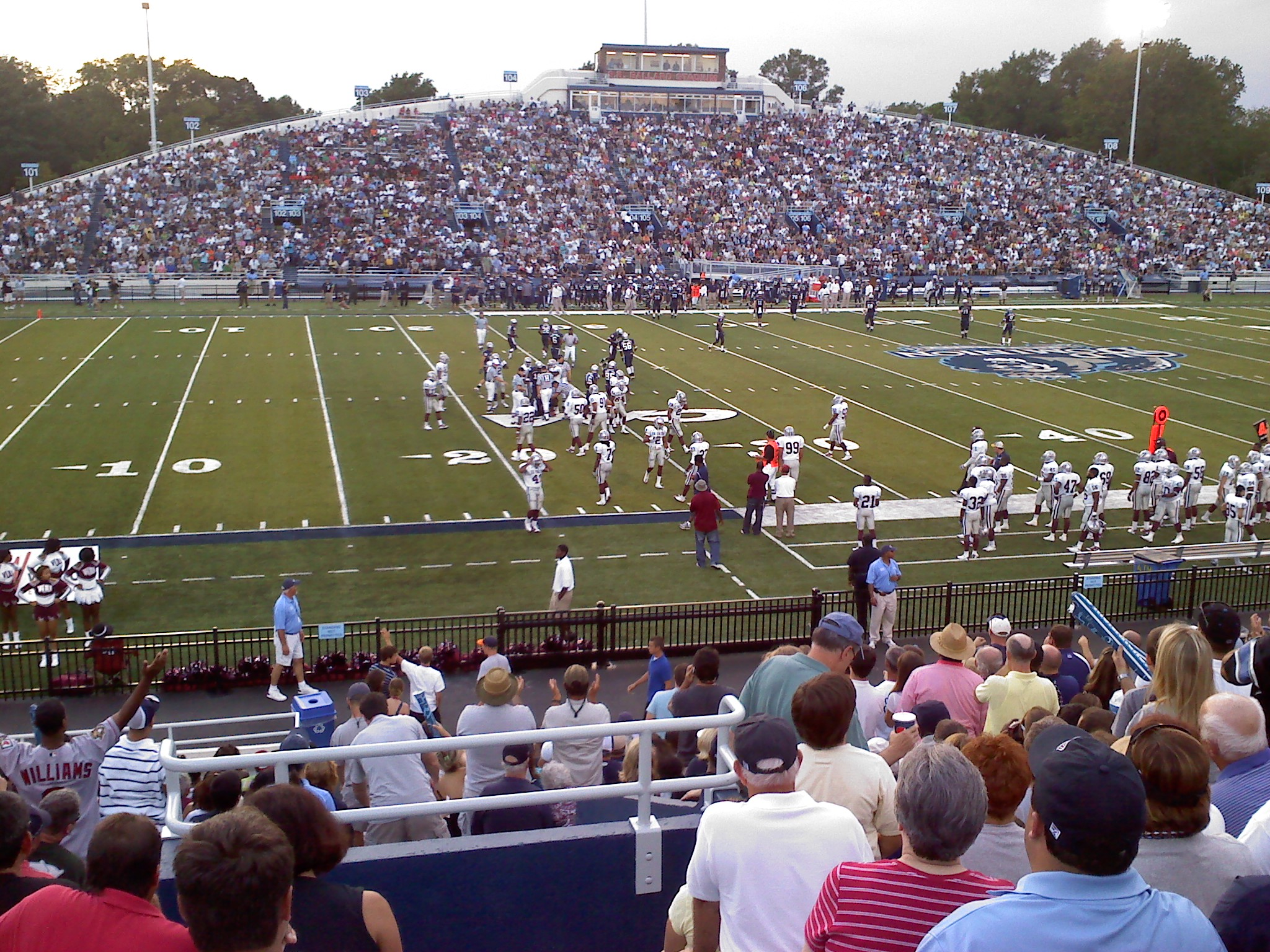 This is an image of a home game against Virginia Union University on 12 Sep 09 at ODU SB Ballard Stadium, Foremen Field, Norfolk, VA.